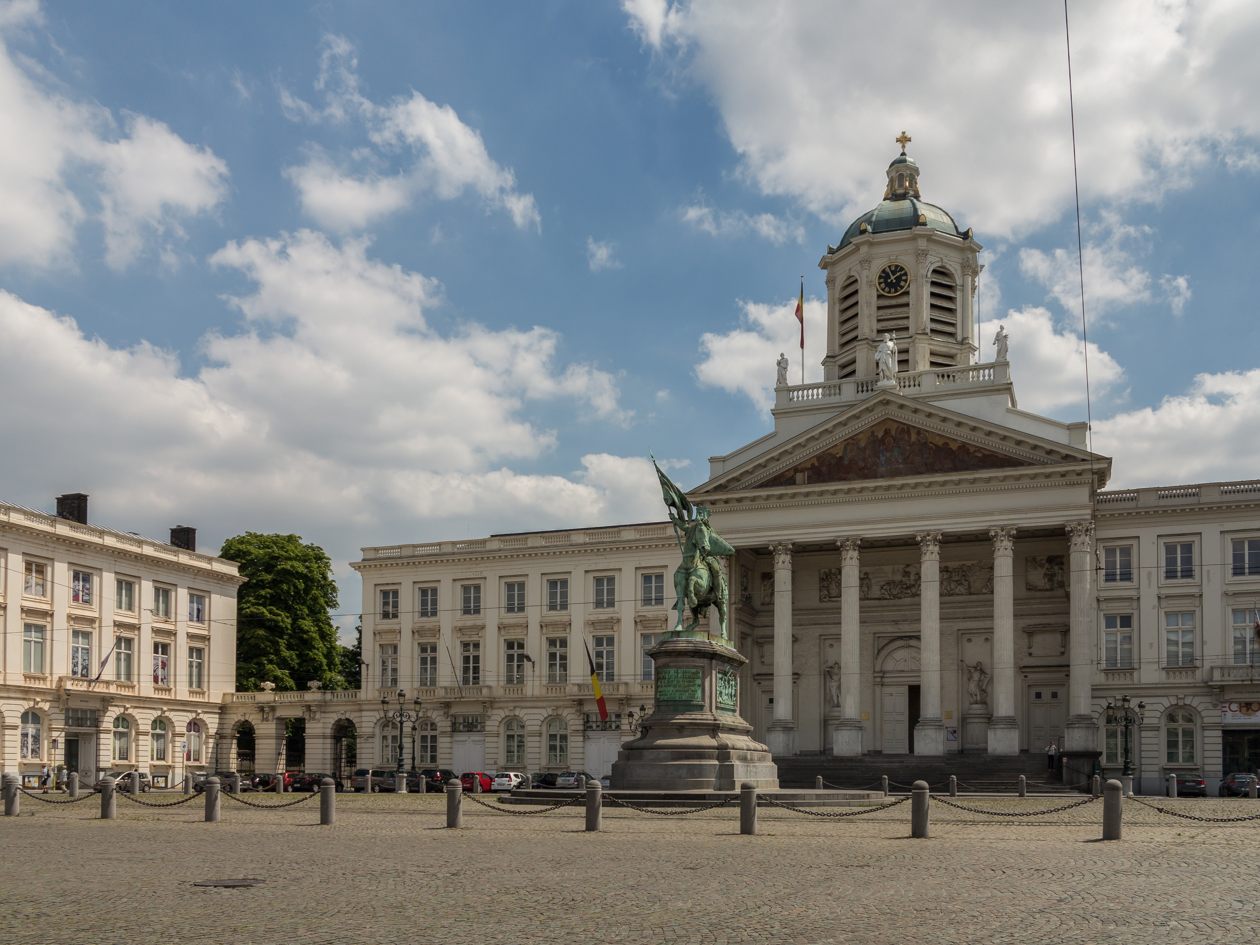 Brussels, view to Place Royale with church (l'église Saint-Jacques-sur-Coudenberg) and statue (Godefroid de Bouillon )